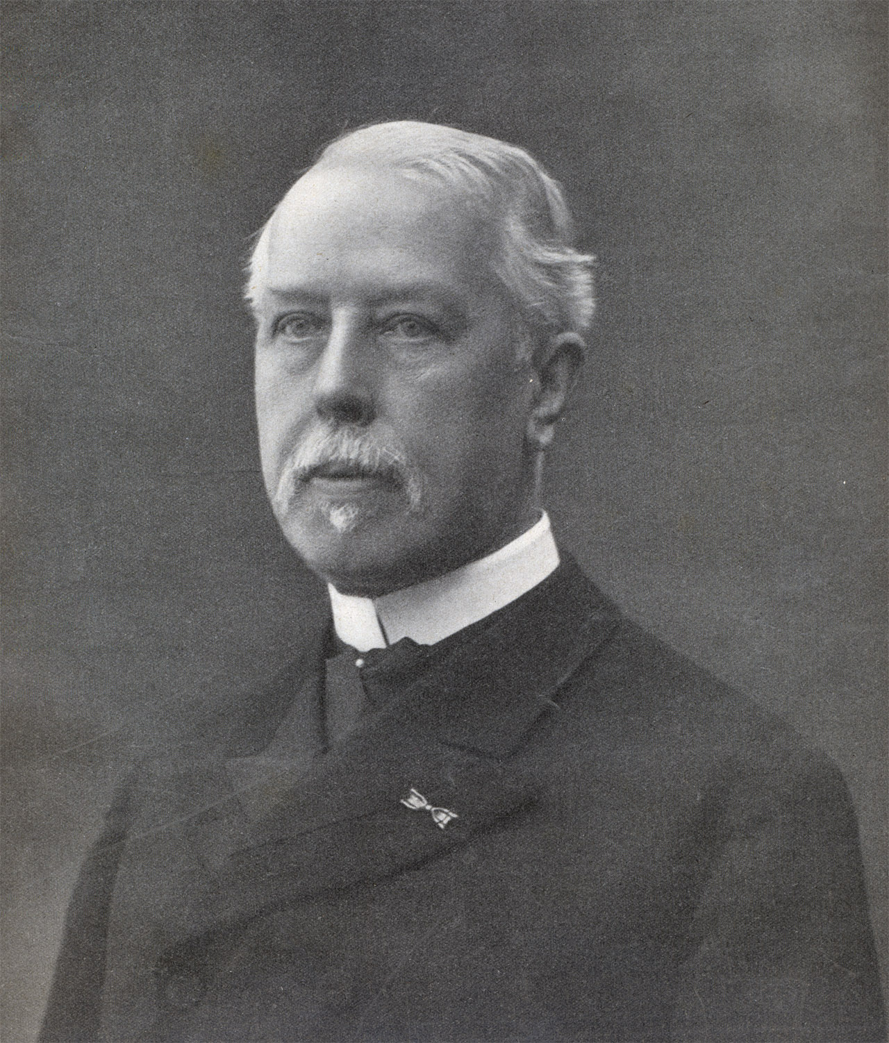 Theodoor_Philip_Mackay